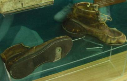 Pair of Lawton Chiles' walking shoes on display at the Florida Capitol. Photograph by J. Williams (Jan. 4, 2004).